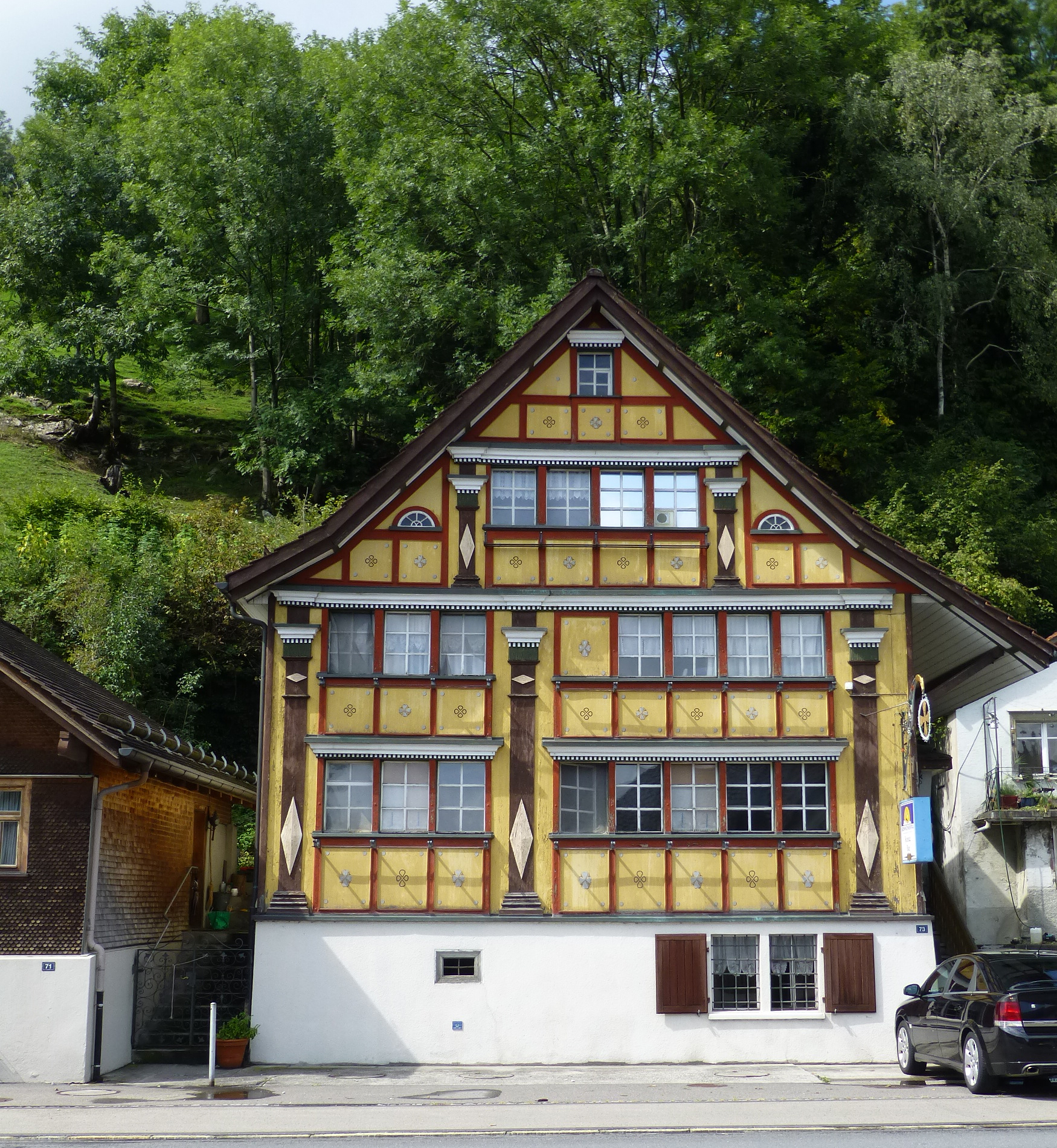 House n°73, Rüthi, Saint-Gallen. Note the decorative columns.